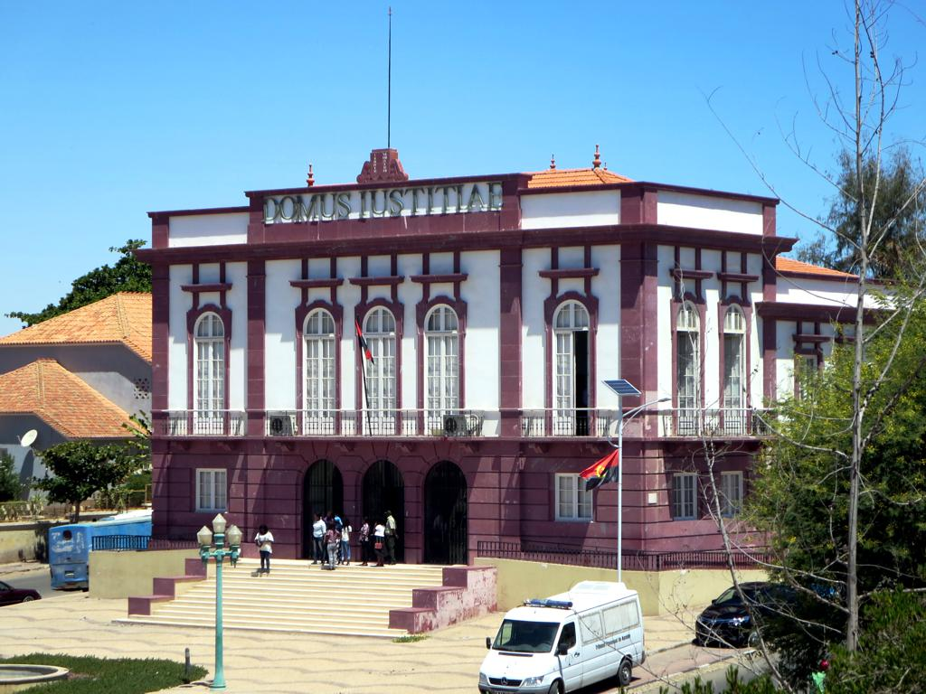 The Palacio da Justiça (1950) facing Avenida Eduardo Mondlane is the main courthouse in Namibe, Angola.